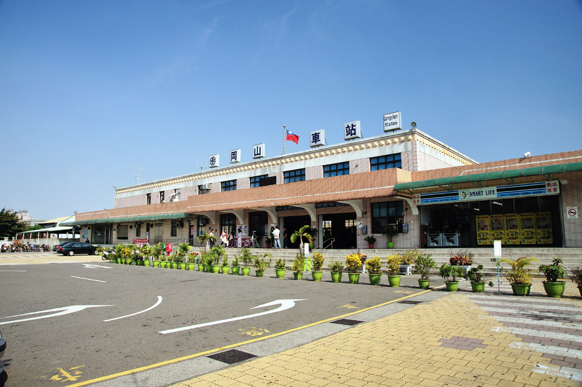 GangShan Station is a local train station of Taiwan's Western main rail line. It locates within the boundary of GangShan Township, KaoHsiung County. GangShan station is the main station of the township.